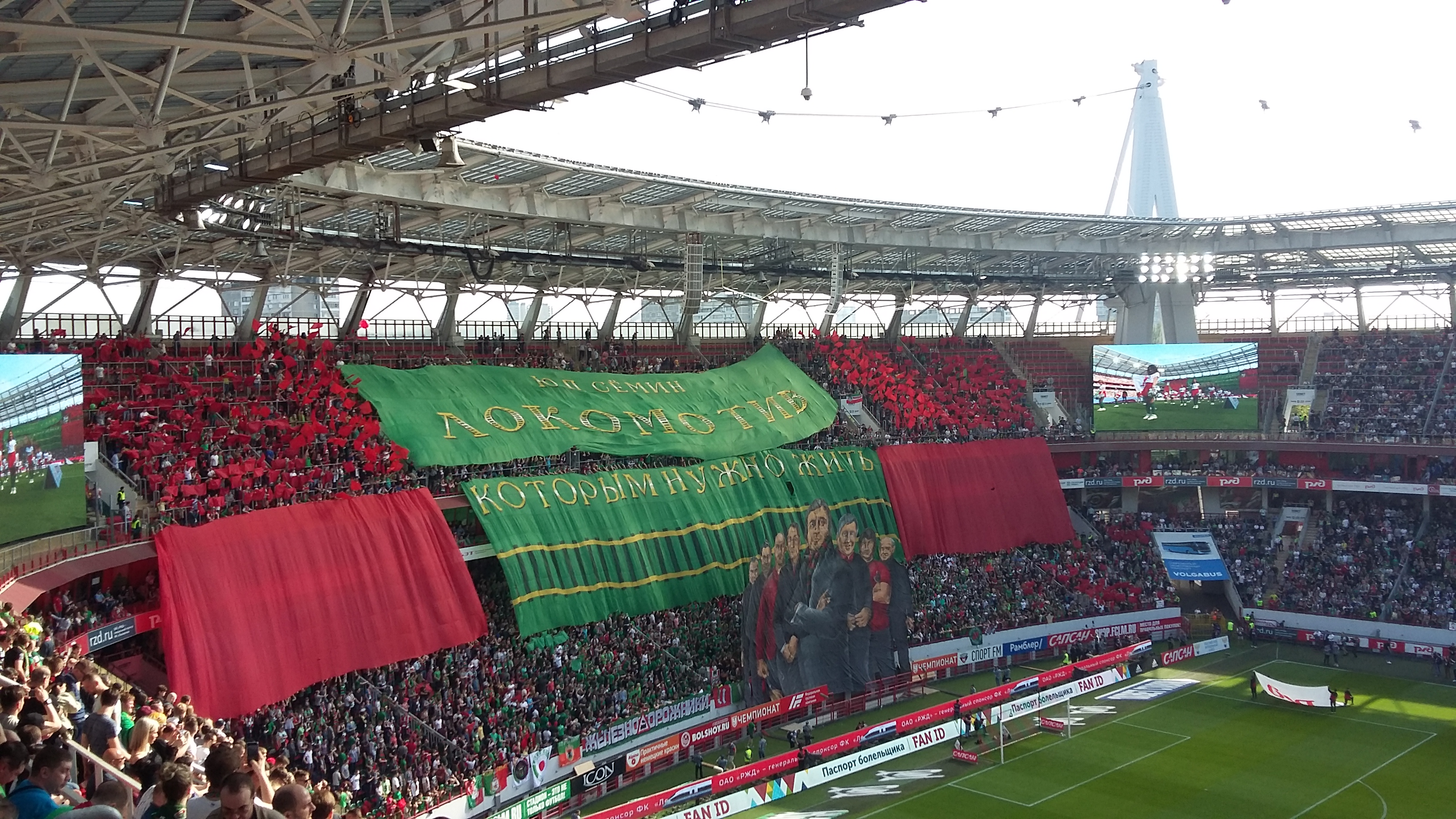 Lokomotive - Zenit, May 5, 2018. South stand, the beginning of the performance of Lokomotive fans.